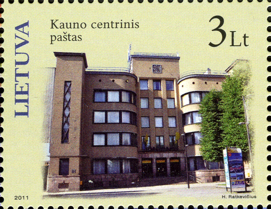 Stamps of Lithuania, 2011